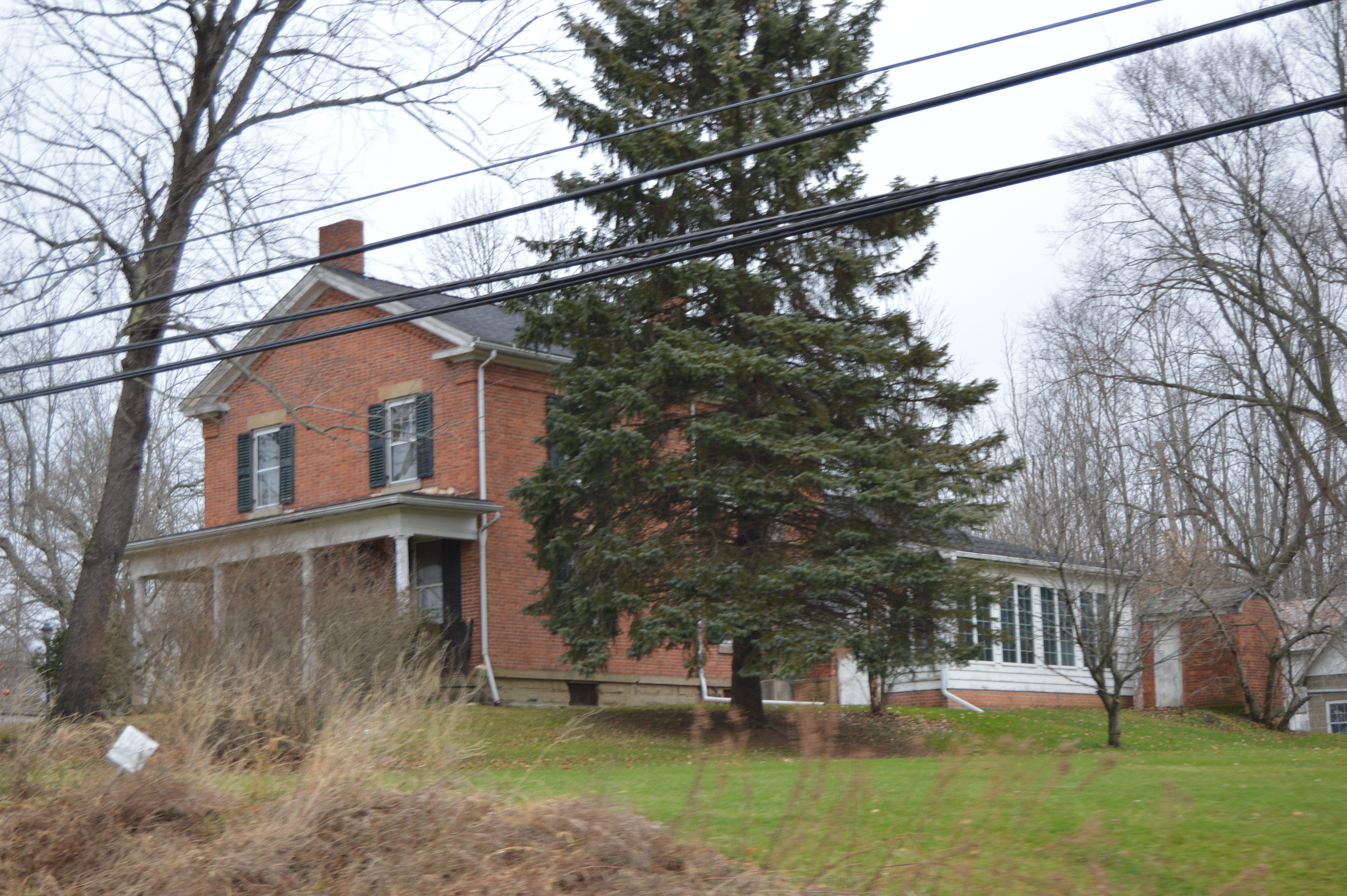 Front and eastern side of the Justin Breckenridge House, located at 37174 State Route 57 south of Grafton in Grafton Township, Lorain County, Ohio, United States. Built in 1851, it is listed on the National Register of Historic Places.